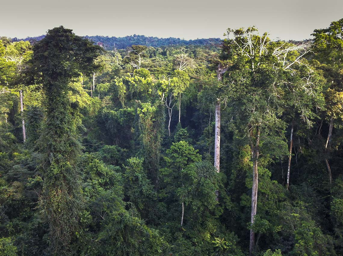 Iphone photo